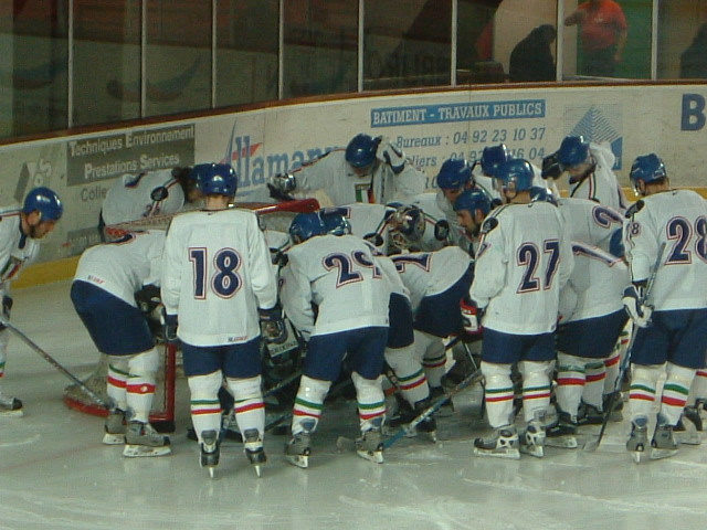 Team Italy, ice hockey. Euro Ice Hockey Challenge, 2003, Briançon, France.